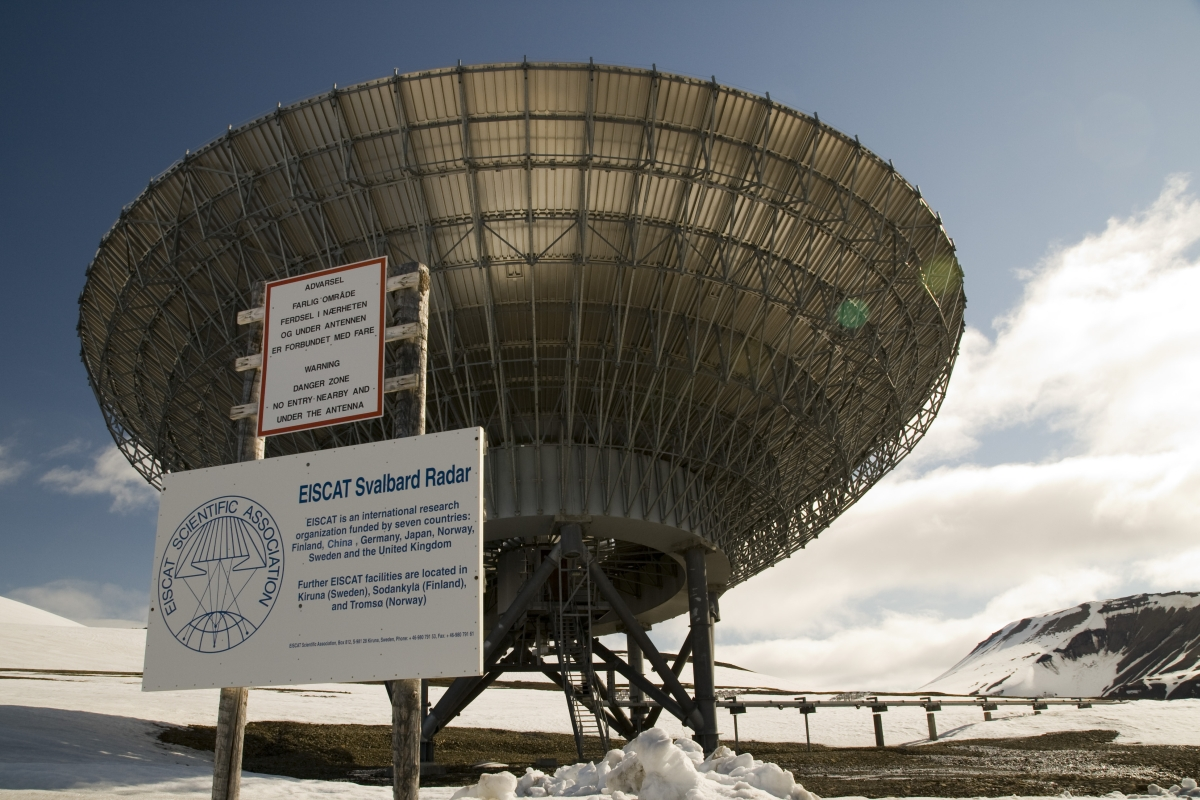 Kjell Henriksen Observatory, Svalbard